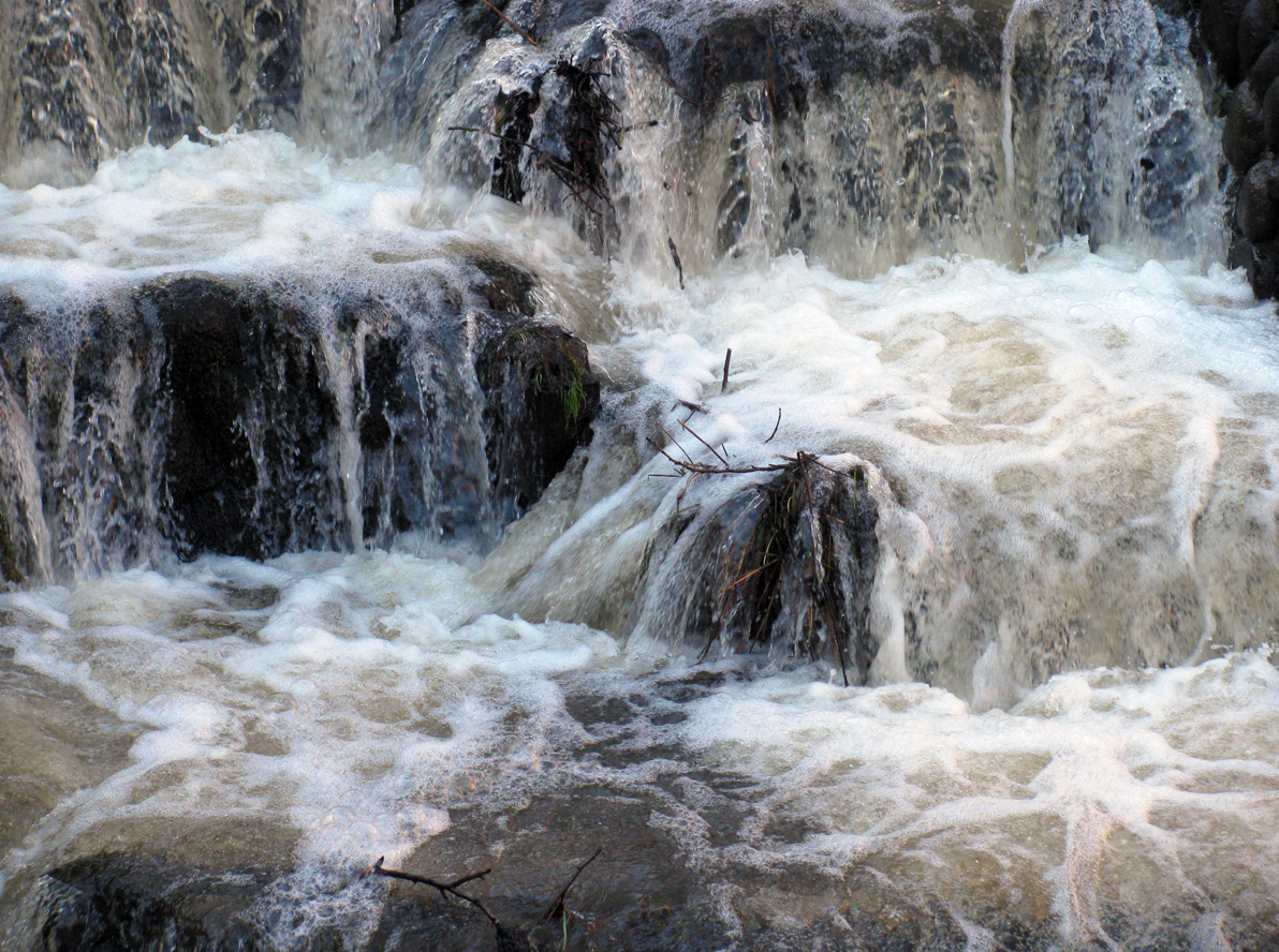 Mariendal, Elling Å, Vendsyssel, Denmark